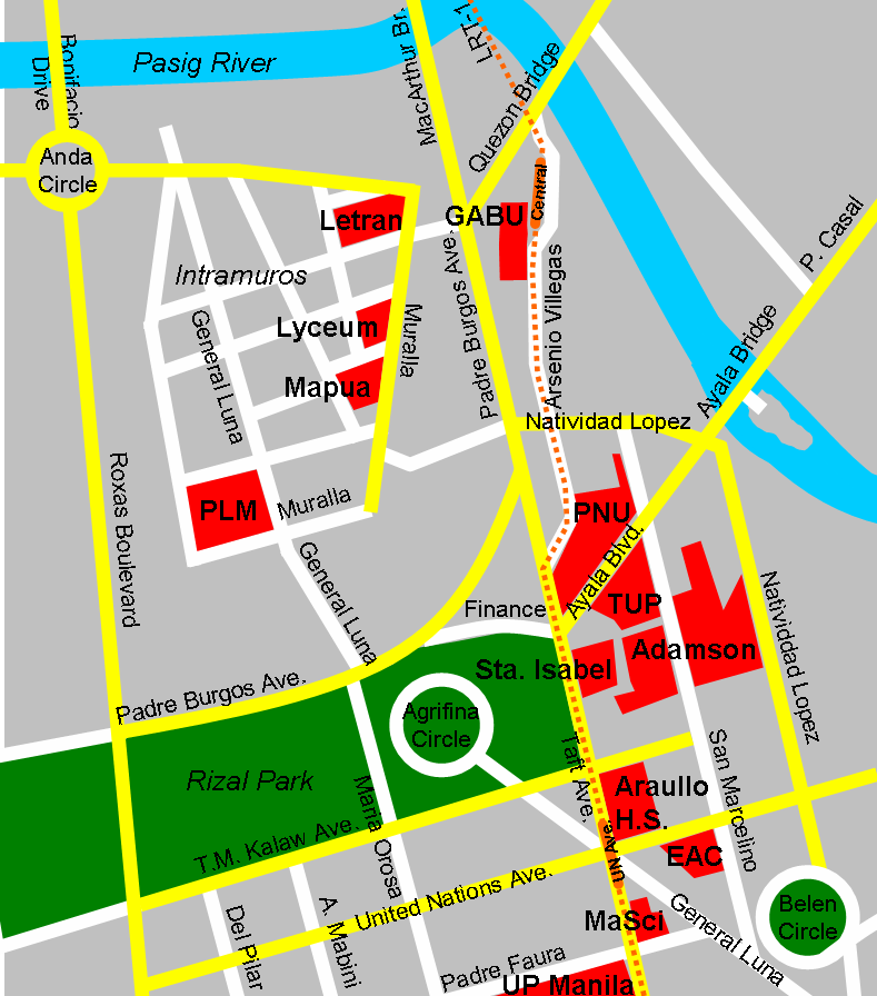 Manila's University Belt south of the Pasig River and north of Padre Faura St.